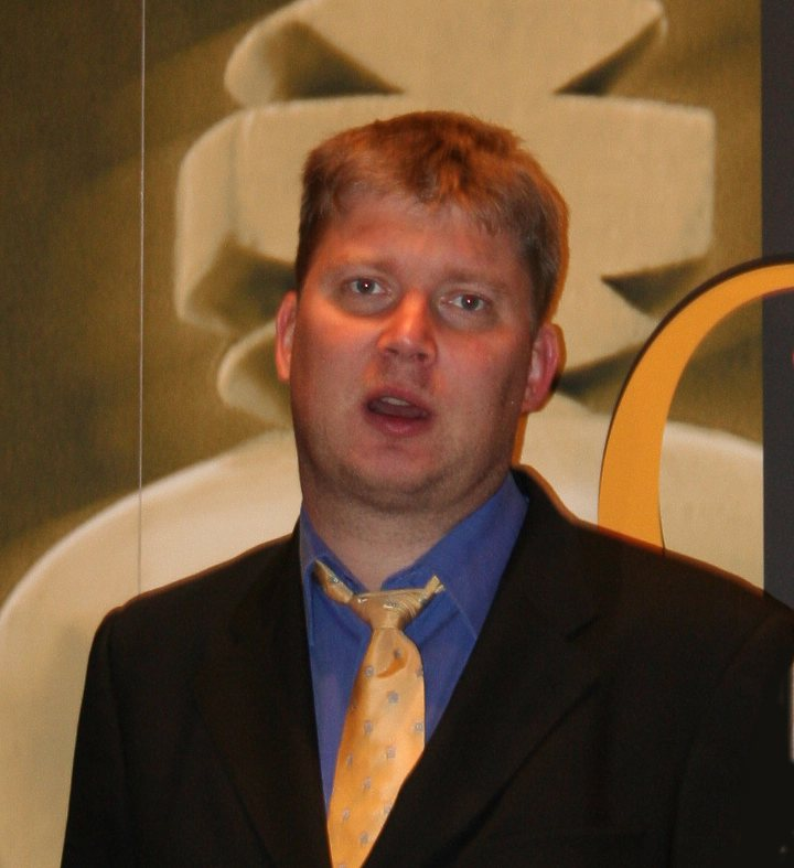 Alexei Shirov – Spain grandmaster. August 2005.